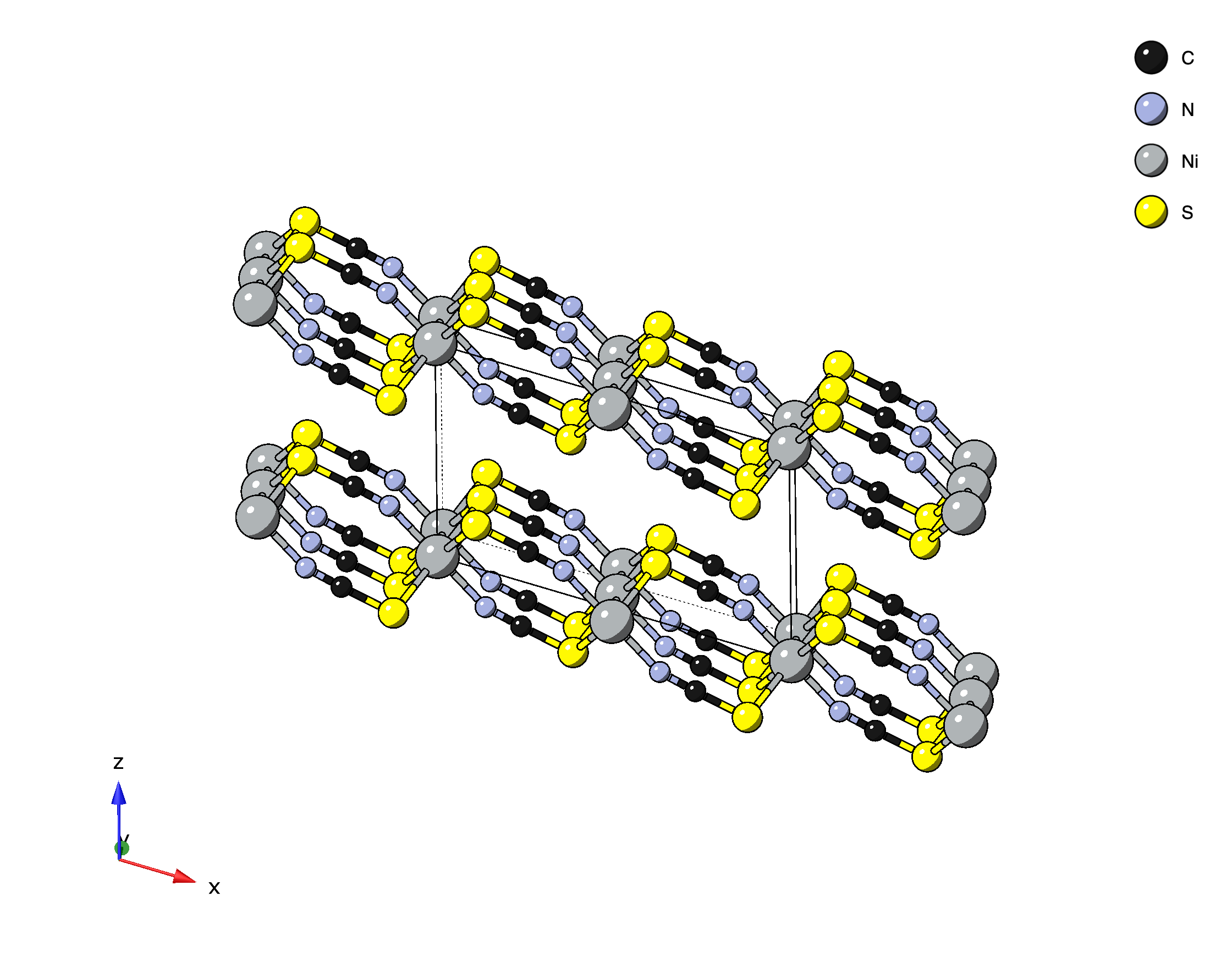 Crystal structure of Ni(NCS)2 generated using CrystalMaker software.